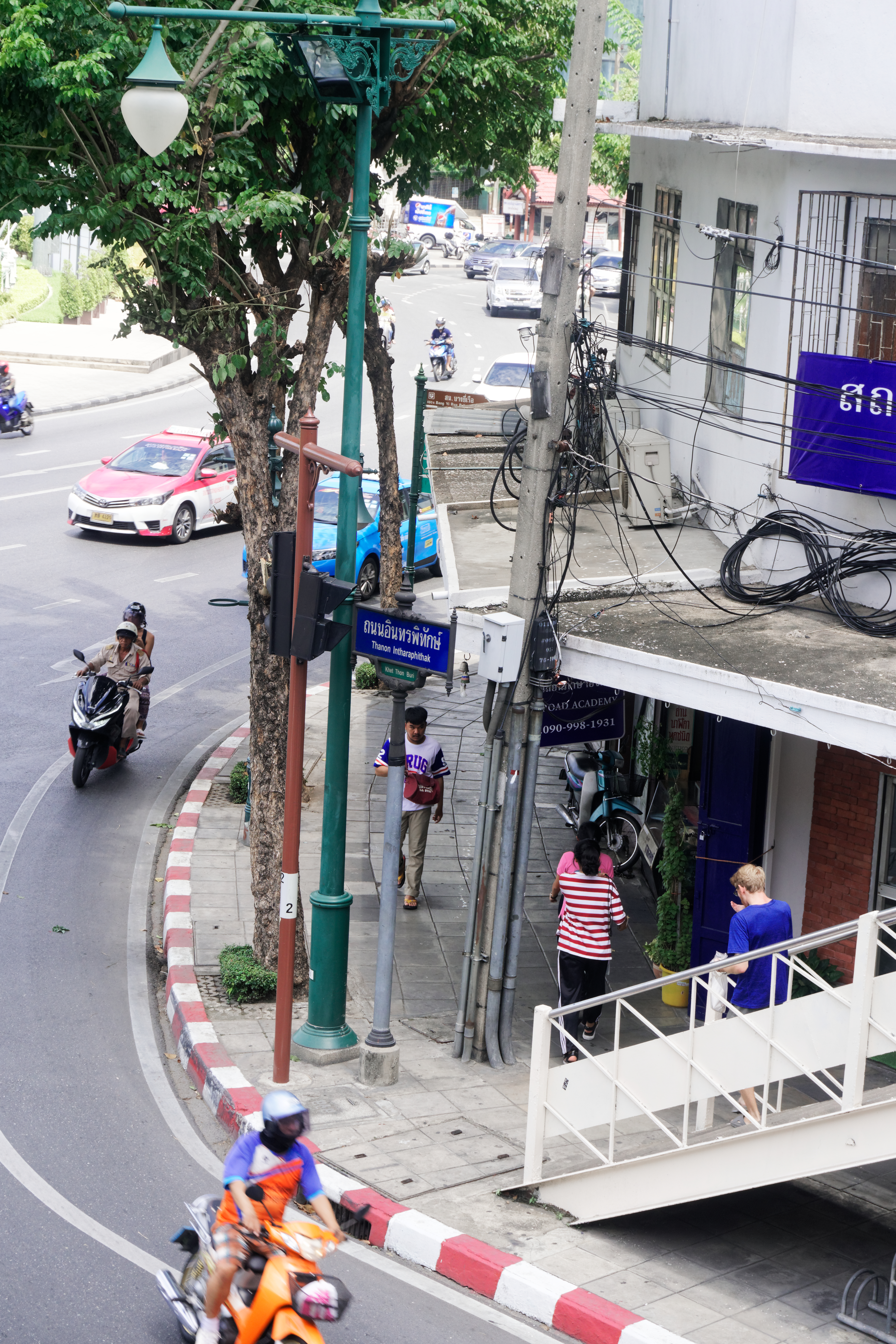 Intharaphitak rd. sign This image was shot from the pedestrian bridge near king Taksin's statue roundabout.